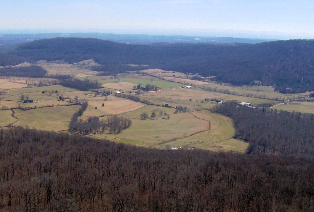 Grassy Cove, looking east from Brady Bluff along the crest of Brady Mountain in Cumberland County, Tennessee, in the southeastern United States. Located along the Cumberland Trail, Brady Bluff is labelled "Lost Overlook" at the trailhead. The mountain spanning the cove in the photo (descending right-to-left) is Bear Den Mountain. The edge of the Cumberland Plateau spans the photo just above Bear Den Mountain, with the Tennessee Valley beyond.